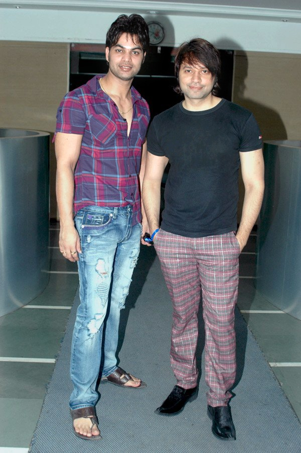 Yuvraj Parashar and Kapil Sharma at the screening of Dunno Y, India's first gay themed film.